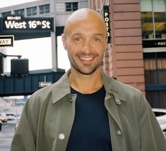 Restaurateur, Winemaker, Author Joe Bastianich